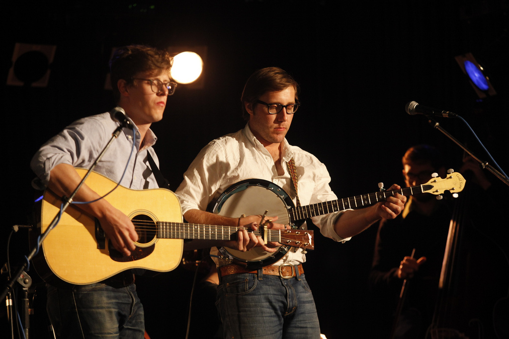 Balmorhea in concert on April 4, 2010